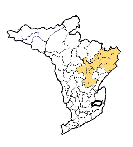 Peddapuram revenue division in East Godavari district